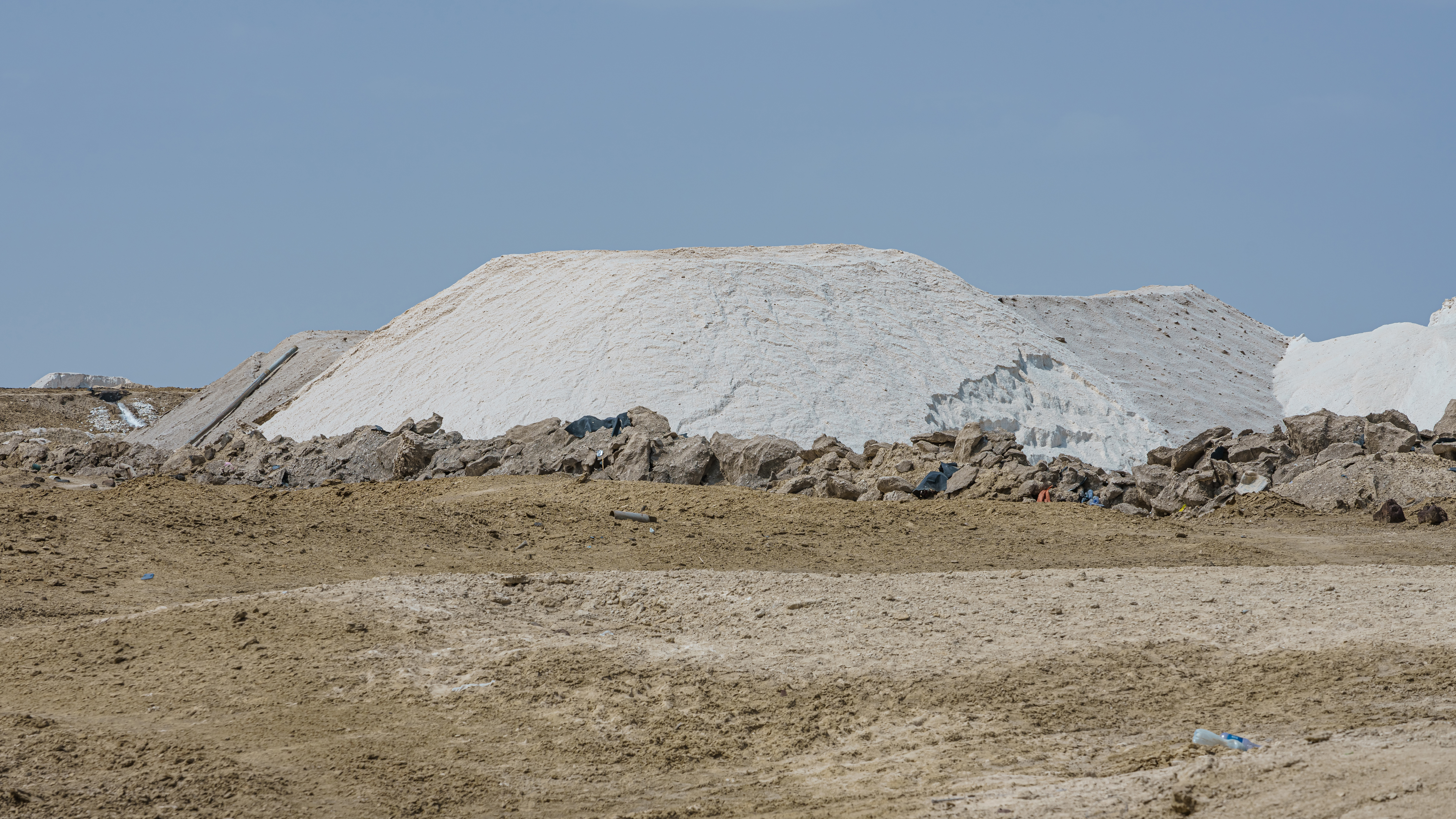 Salt production at Lake Afdera, Afar Region, Ethiopia